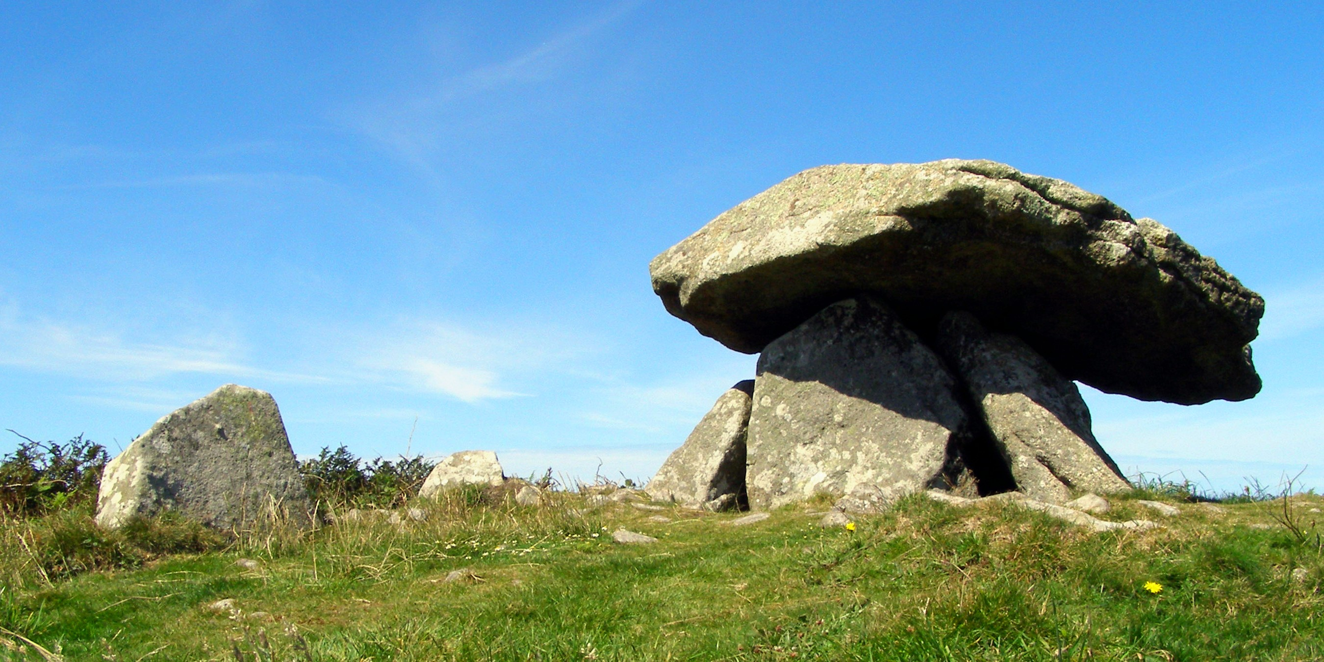 Worms-eye view of the quoit and surrounding stones. It was lunchtime, hence the strong light and shadows.ChÃ»n Quoit